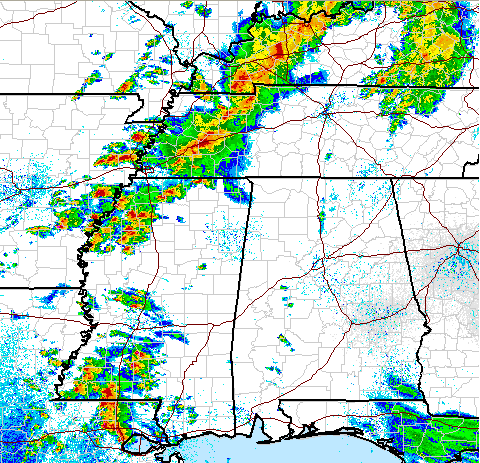 Regional radar of the storm cells producing tornadoes in the south-central United States